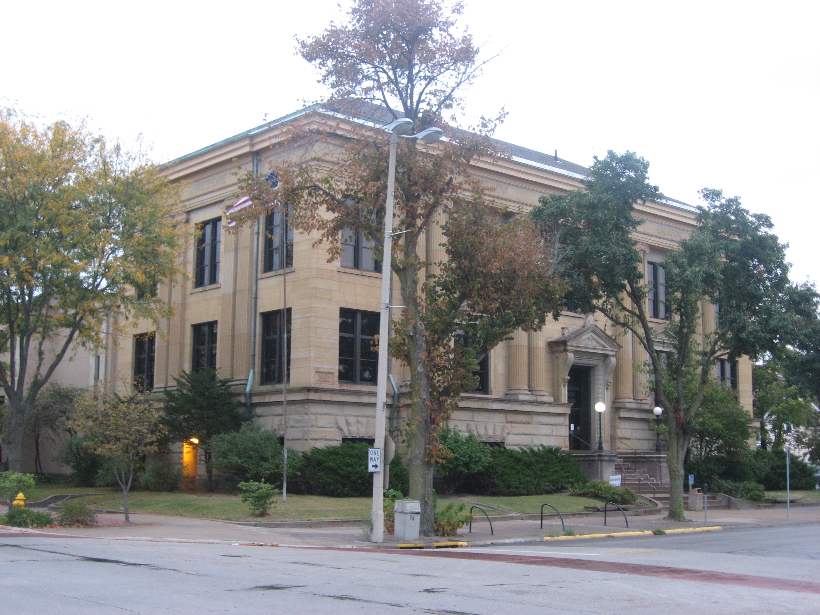 Front and northern side of the Rock Island Public Library, located at 401 Nineteenth Street in Rock Island, Illinois, United States. It was built in 1872.